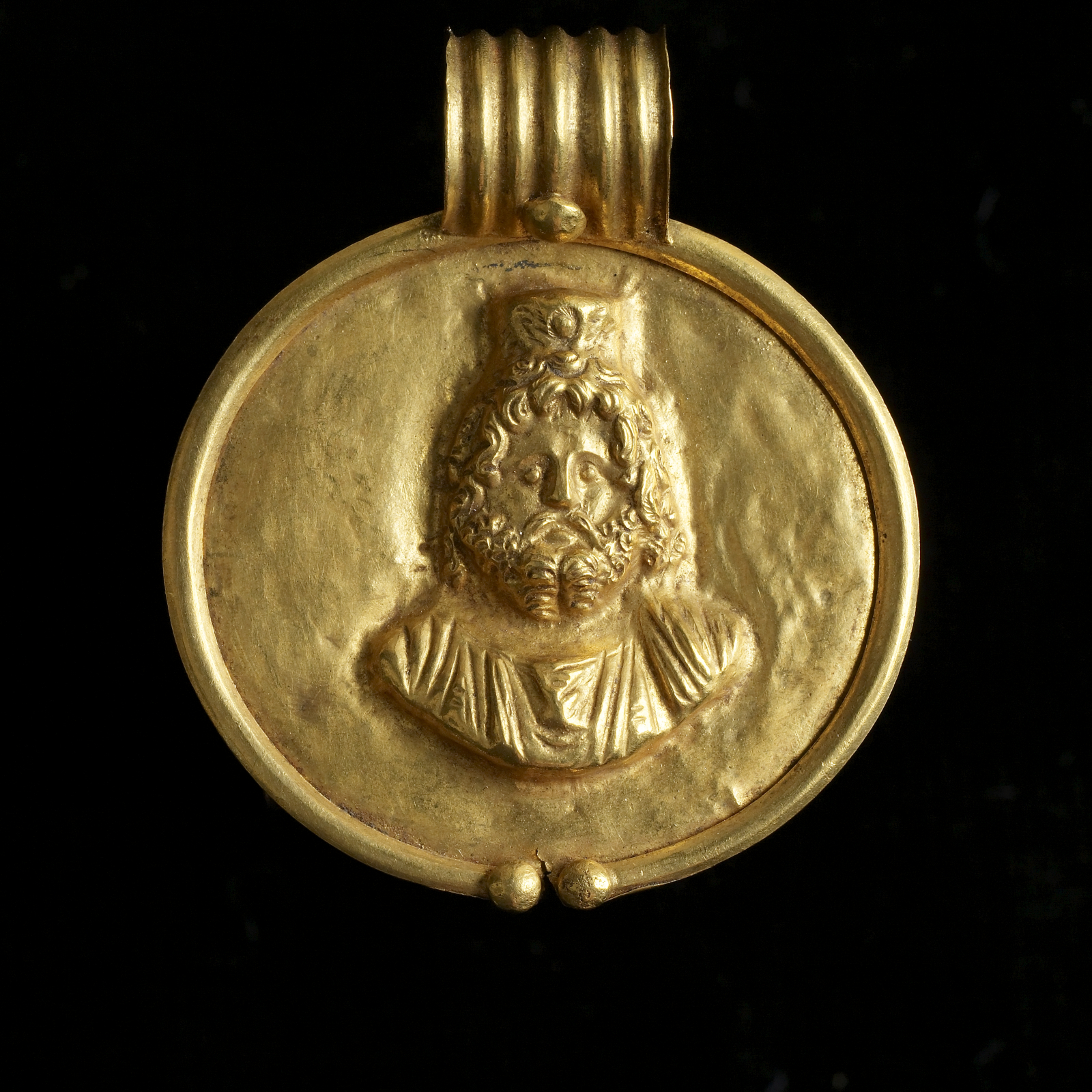 The god Sarapis emerged in Egypt at the beginning of the Hellenistic era, when the country was occupied by Alexander the Great (332 BC) and a dynasty of Macedonian kings, the Ptolemies, ruled Egypt. It was Ptolemy I (305/304-282 BC) who gave the order to develop a new religious cult for his dynasty and the Egyptian state, and he dedicated the first temple to Sarapis at Alexandria for this purpose. For the Greeks, the creation of a new god was something extraordinary, but for the Egyptians the modification of religious concepts to fit new needs was a long-standing tradition. The priests chose the Egyptian god Osiris-Apis (named later also Osorapis), who was a protective deity, a god of oracles, and lord of time and eternity. They modified his name to Sarapis, and gave his visual representation a Hellenistic form, appropriating the shoulder-length hair and full beard of the Greek supreme deity Zeus; the "kalathos"--a woven grain basket--with which Sarapis is often crowned, symbolizes fertility. The participation of Egypt's Greek population in rituals for Sarapis and the Hellenized Isis was an expression of their loyalty to the dynasty (native Egyptians clung to their traditional gods), but the worship of Sarapis did not end with the extinction of the Ptolemies. To the contrary: the god became a universal deity in Roman times, venerated throughout the Mediterranean.